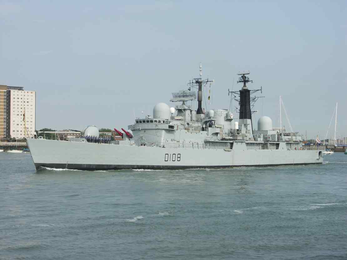 HMS Cardiff (D108), (will add date and approximate location later)